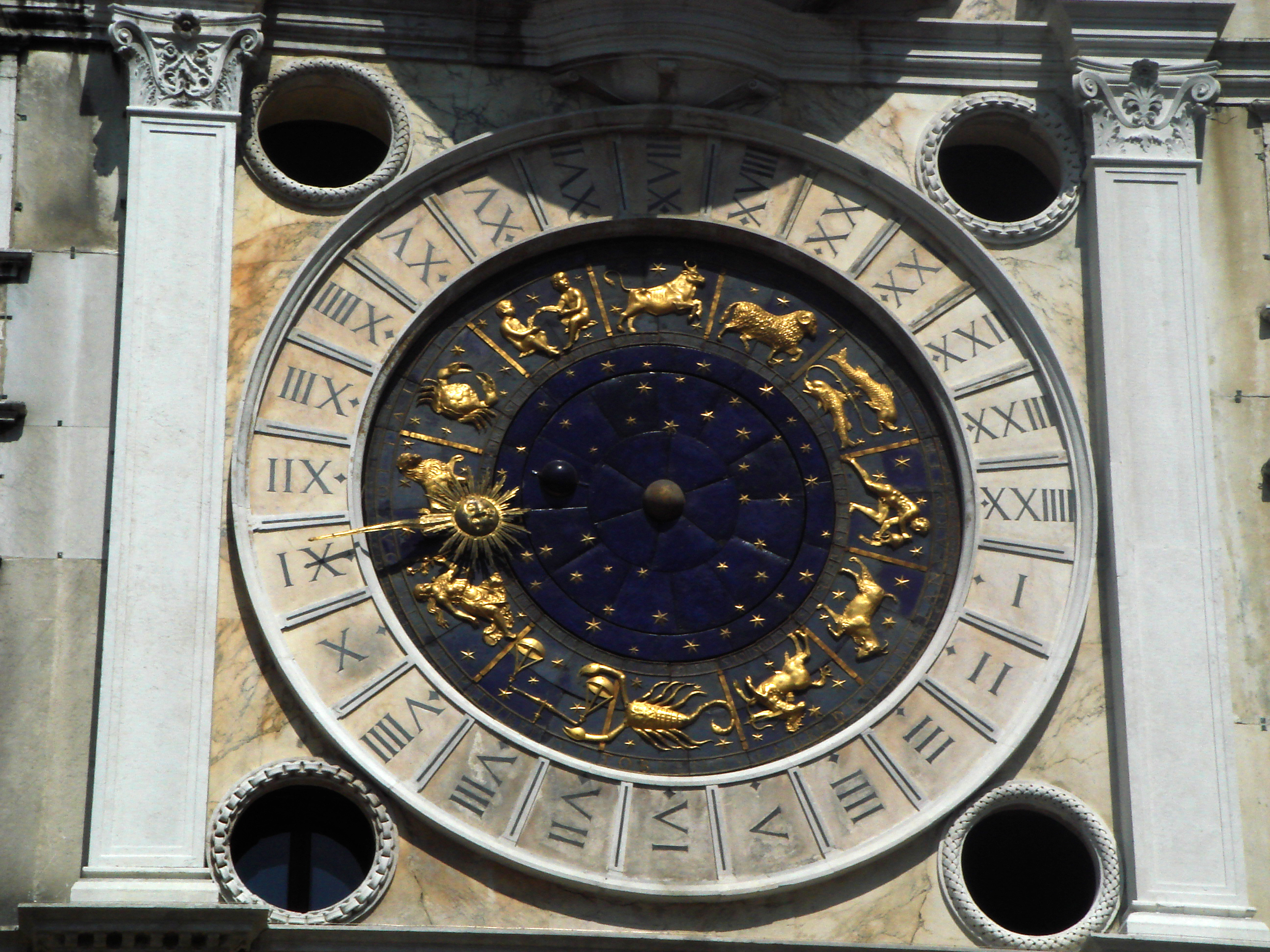 Piazza San Marco square in Venice: the clock upon the the clock tower. Picture by Giovanni Dall'Orto, August 12, 2007.